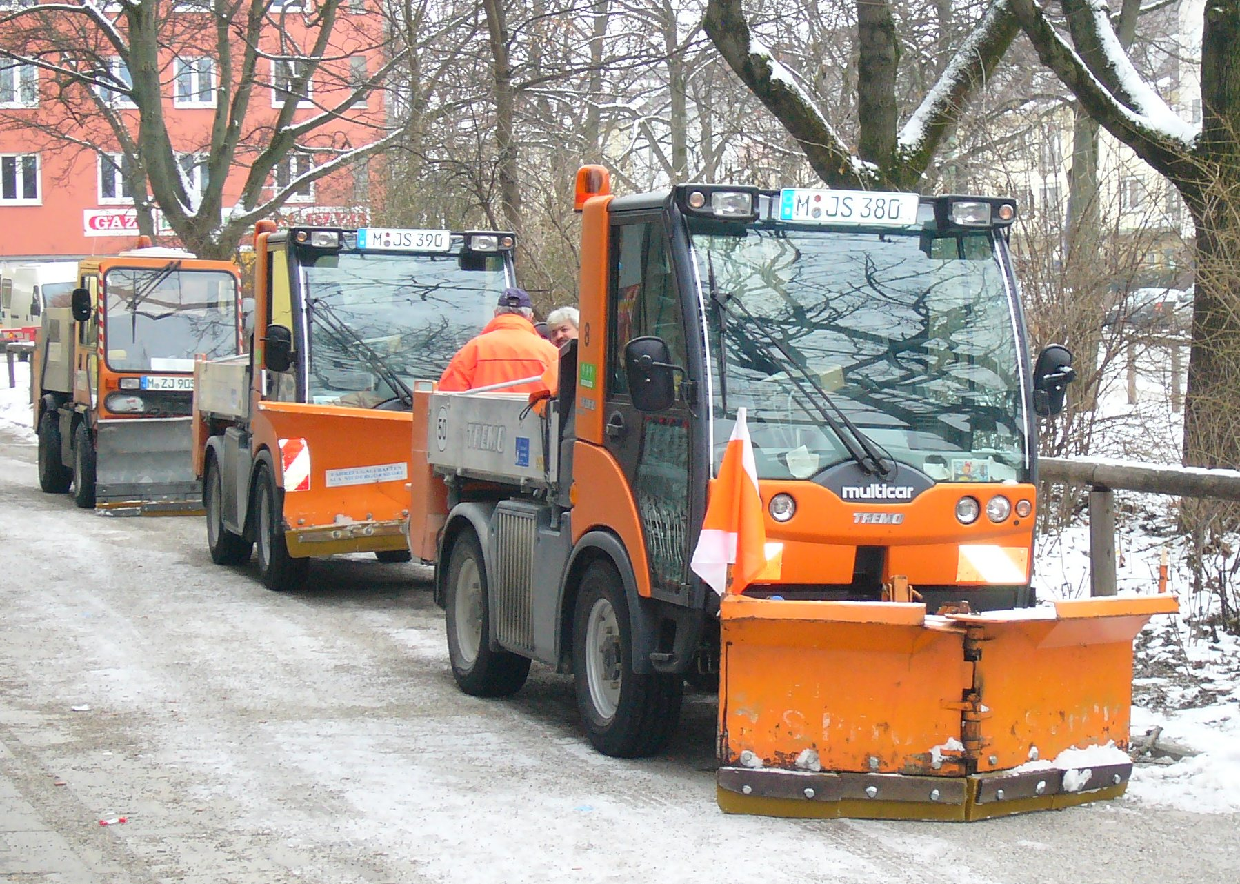 Small Snowplow vehicles in Munich, Germany (Multicar TREMO).